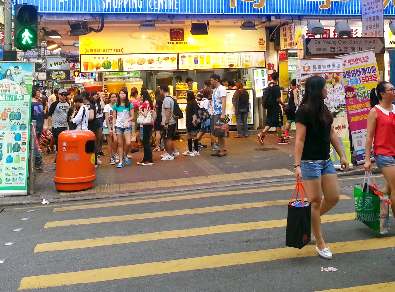 A street food store in Sai Yeung Choi Street, Mongkok.